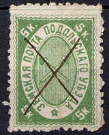 Podolsk Zemstvo stamp, 1878, 5 kopecks, pen cancelled.